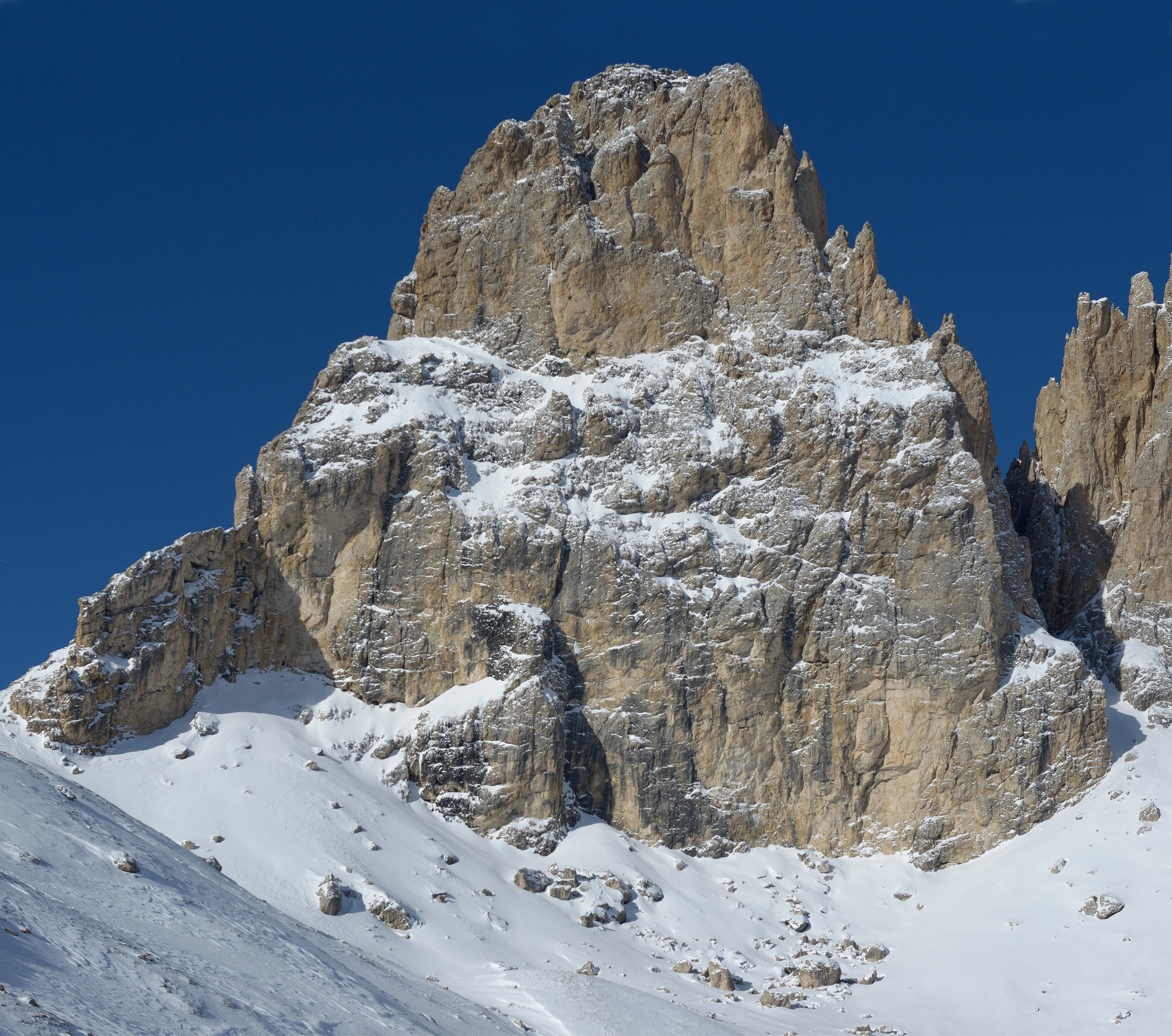 The Grohmann peak in the Langkofel Group from the Sella pass.